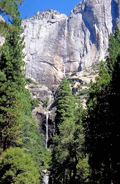 Yosemite Falls